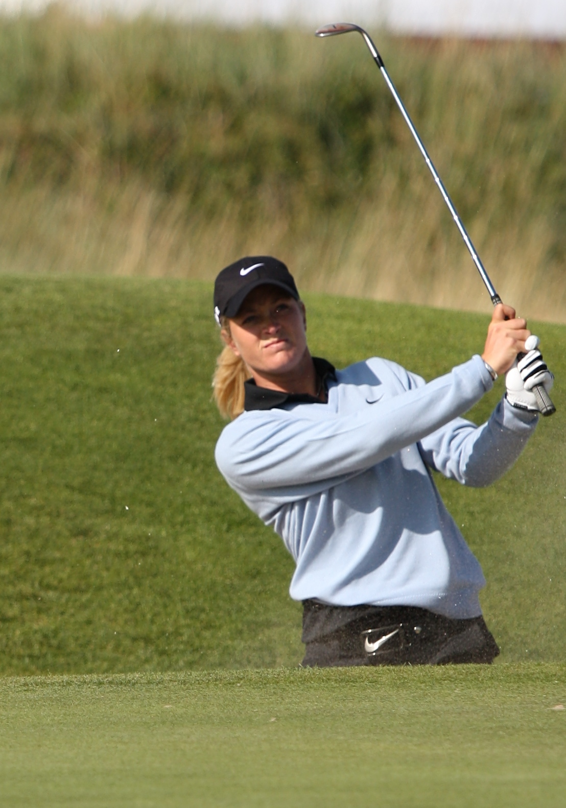 LYTHAM ST ANNES, UNITED KINGDOM - JULY 27: Suzann Pettersen of Norway hits out of the bunker next to the 15th green during first practice round before 2009 Ricoh Women's British Open held at Royal Lytham & St Annes on July 27, 2009 in Lytham St Annes, England. (Photo by Wojciech Migda)